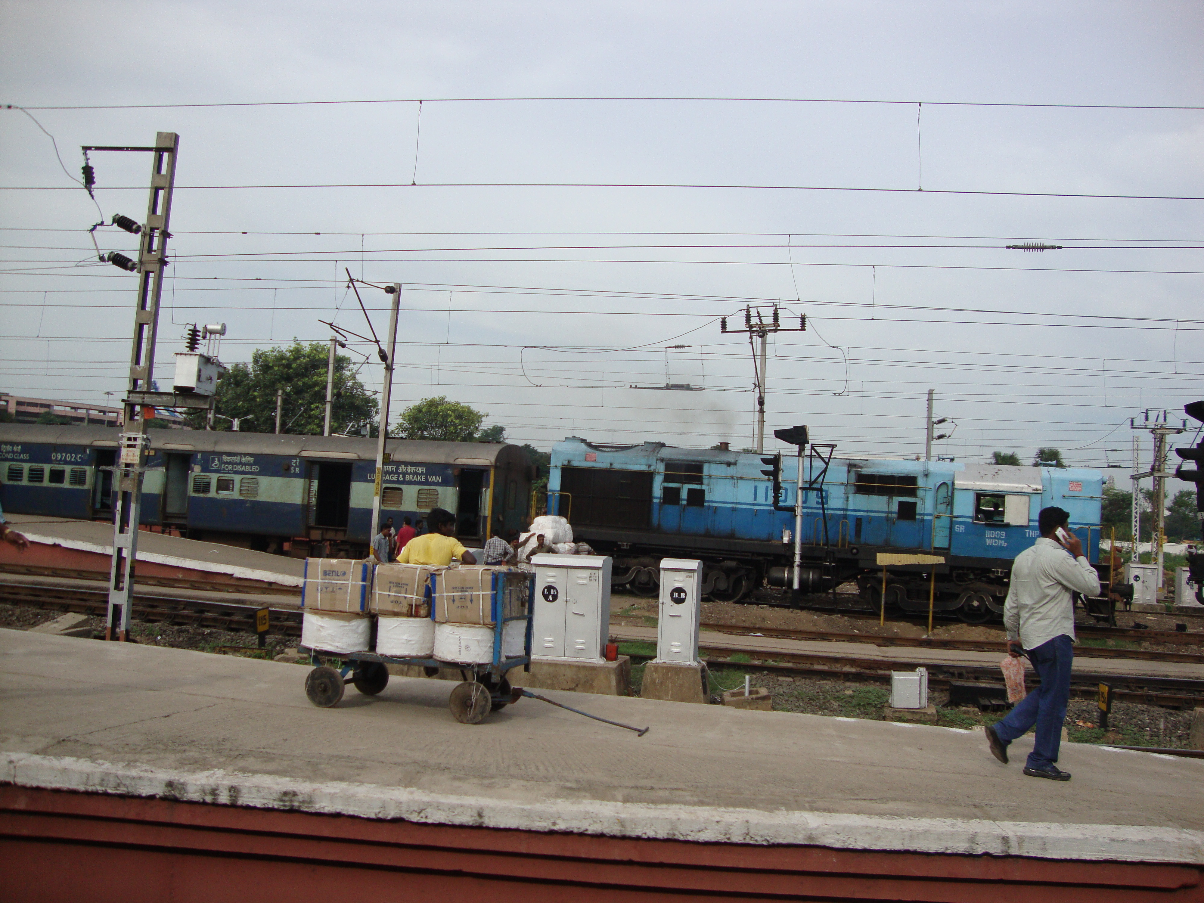 A WDM7 Diesel loco of WDM class is ready for shunting a empty passenger train